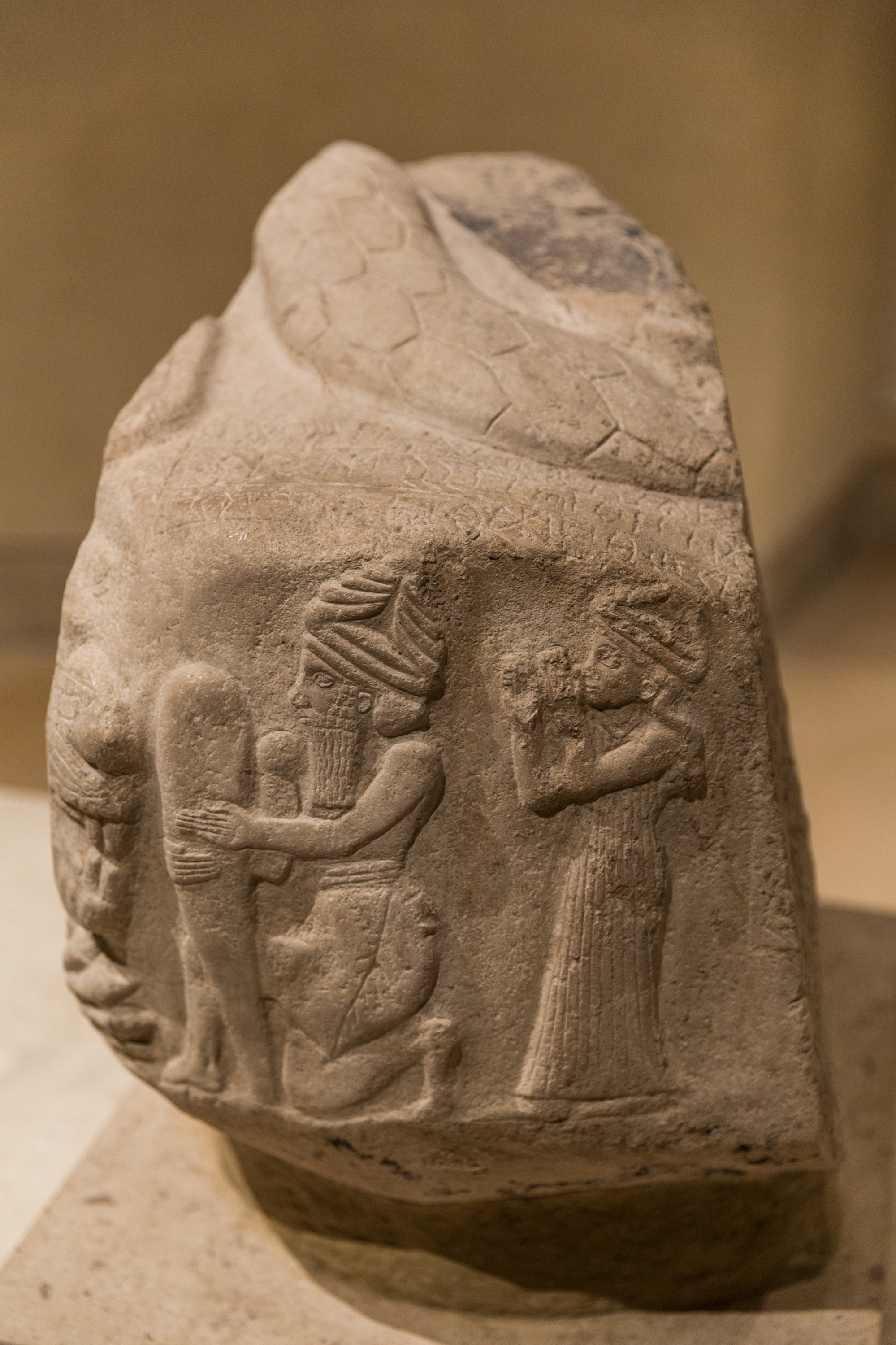 Louvre, Paris, Department of Near Eastern Antiquities: Iran Period of king Puzur-Inshushinak 2100 BJC